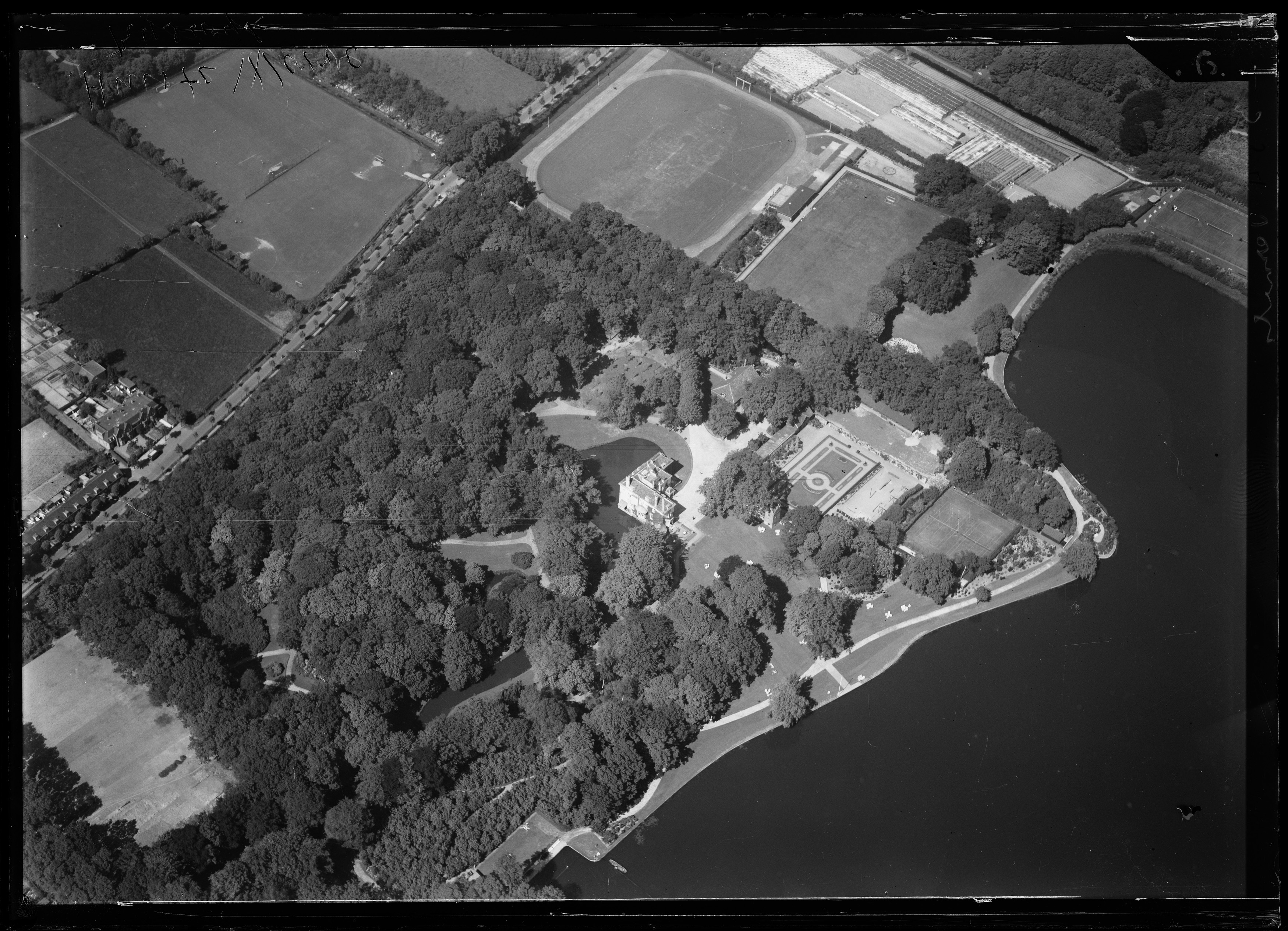 Aerial photograph of te Werve, The Netherlands